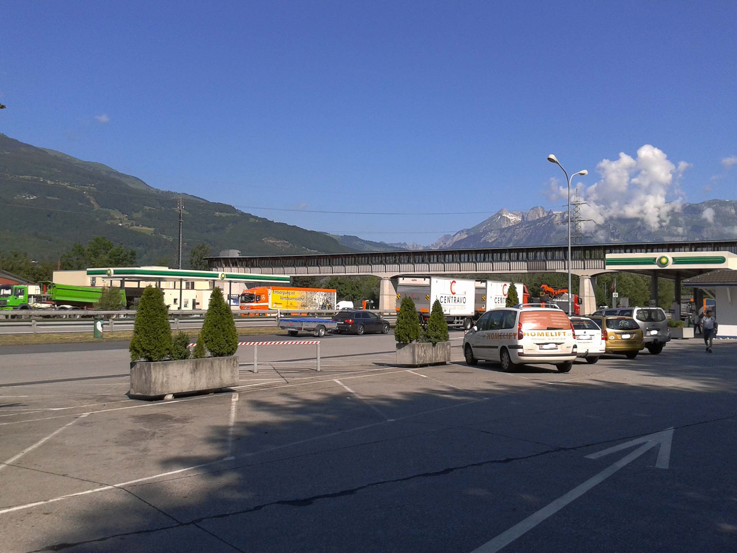 Rest area Rheintal (Werdenberg) in Swiss